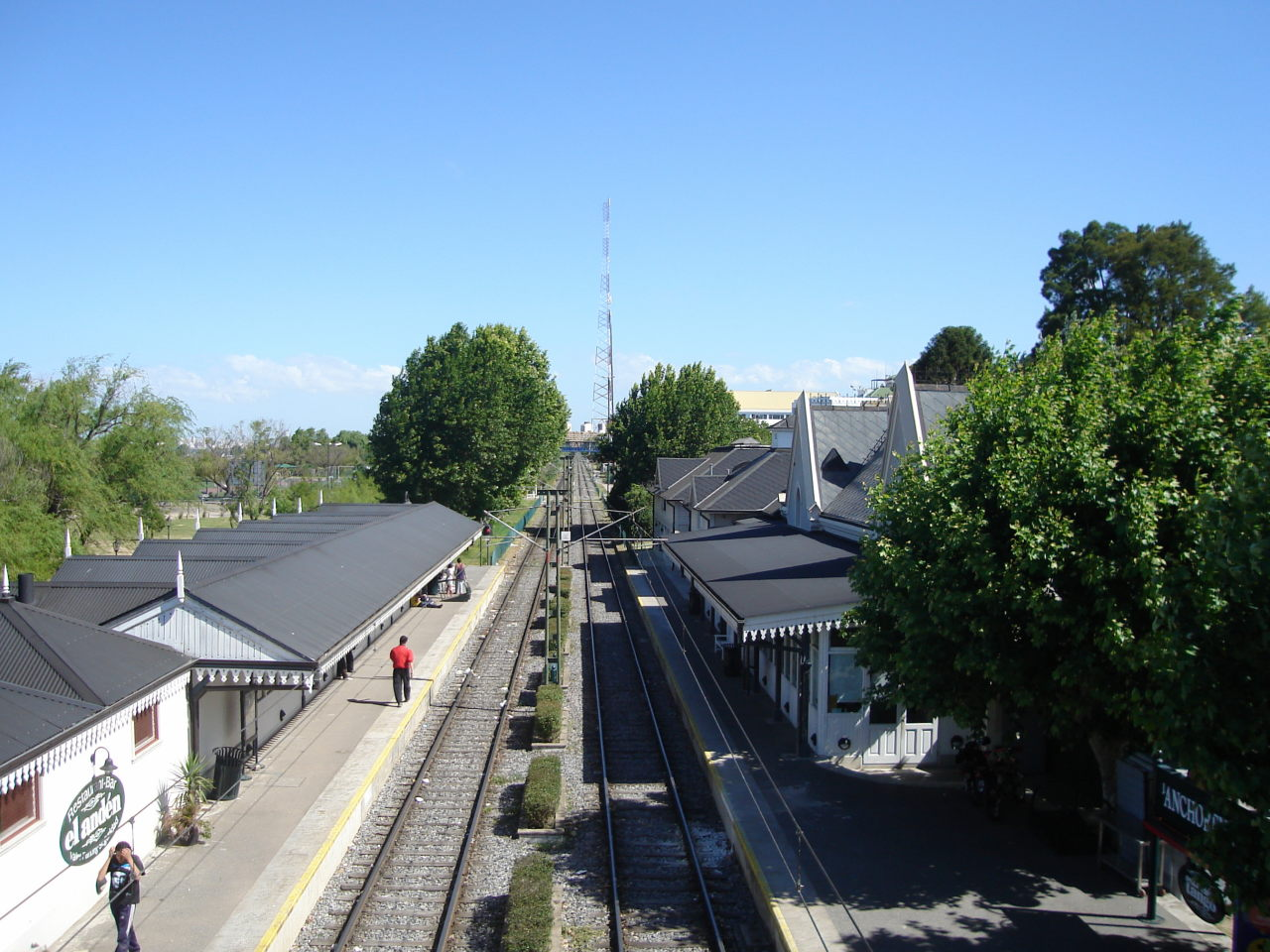 Tren de la Costa